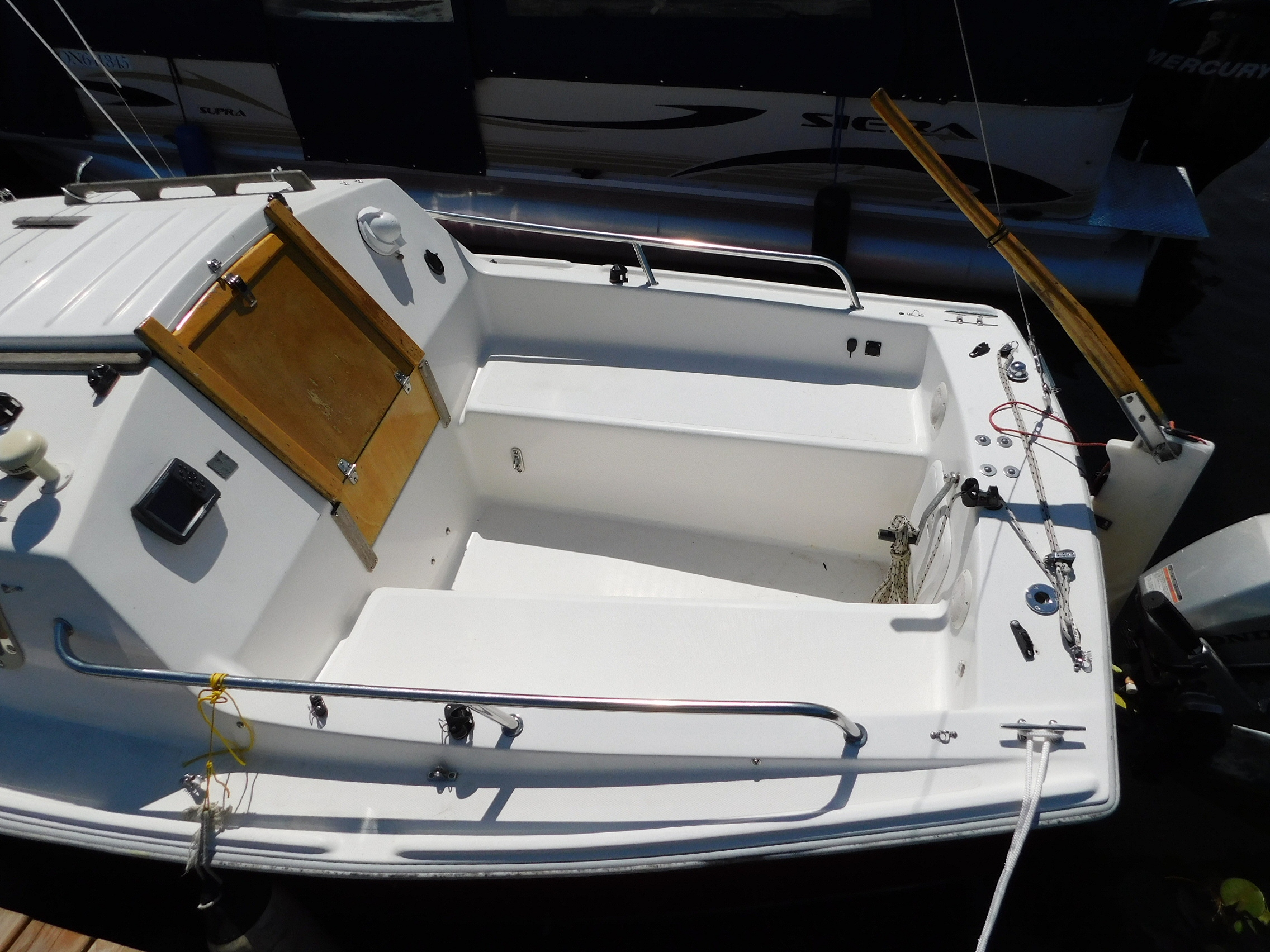 The cockpit of a West Wight Potter 19 sailboat named Time Bandit.